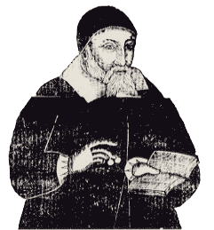 Woodcut of Richard Mather attributed to John Foster. Dated around 1670, the first print known to have been made in the American coloniesacc. to Michael G. Hall: Increase Mather. The Last American Puritan. Wesleyan UP, 1988, p. 9. Original an earlier oil painting by an unknown artist.